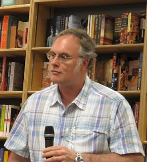 John Robison, an autism activist with Asperger syndrome, giving a talk